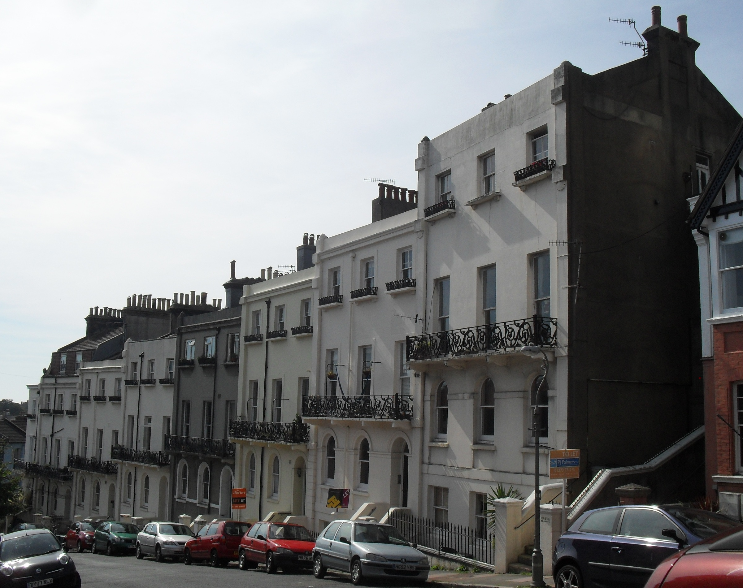 1–13 Roundhill Crescent, Round Hill, City of Brighton and Hove, England. A terrace of middle-class housing built in the 1860s. Listed at Grade II by English Heritage (IoE Code 481157)